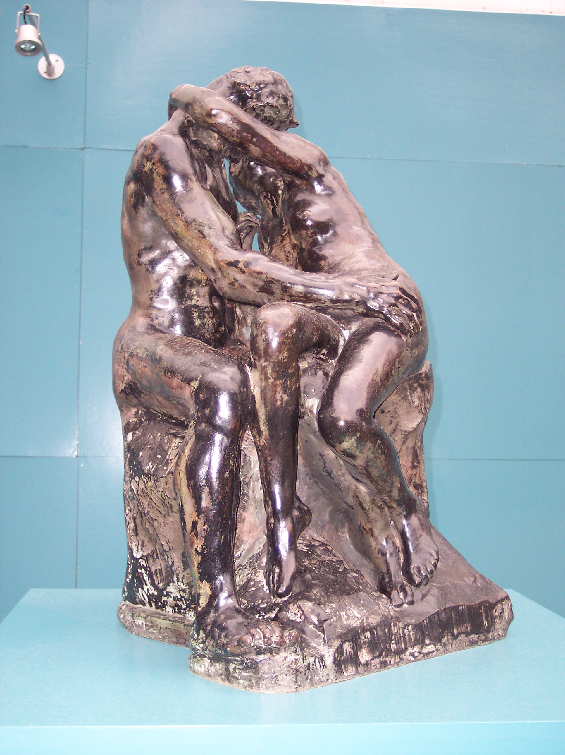 The Kiss, Le baiser Author: Auguste Rodin. Year: 1886 Material: (spanish) Bronce con pátina café Photo taken in Mexico City on a temporal exhibition